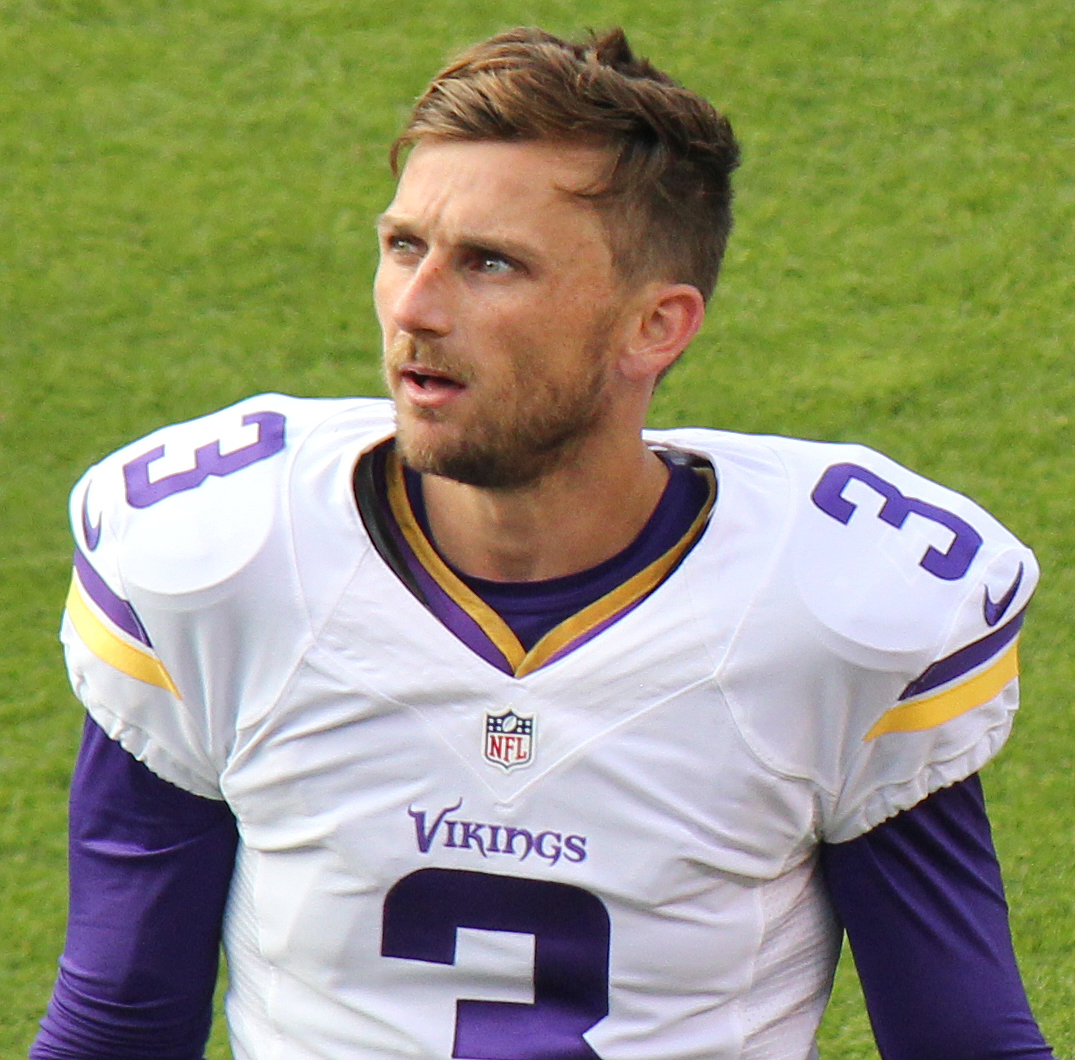 Blair Walsh, a player on the National Football League.